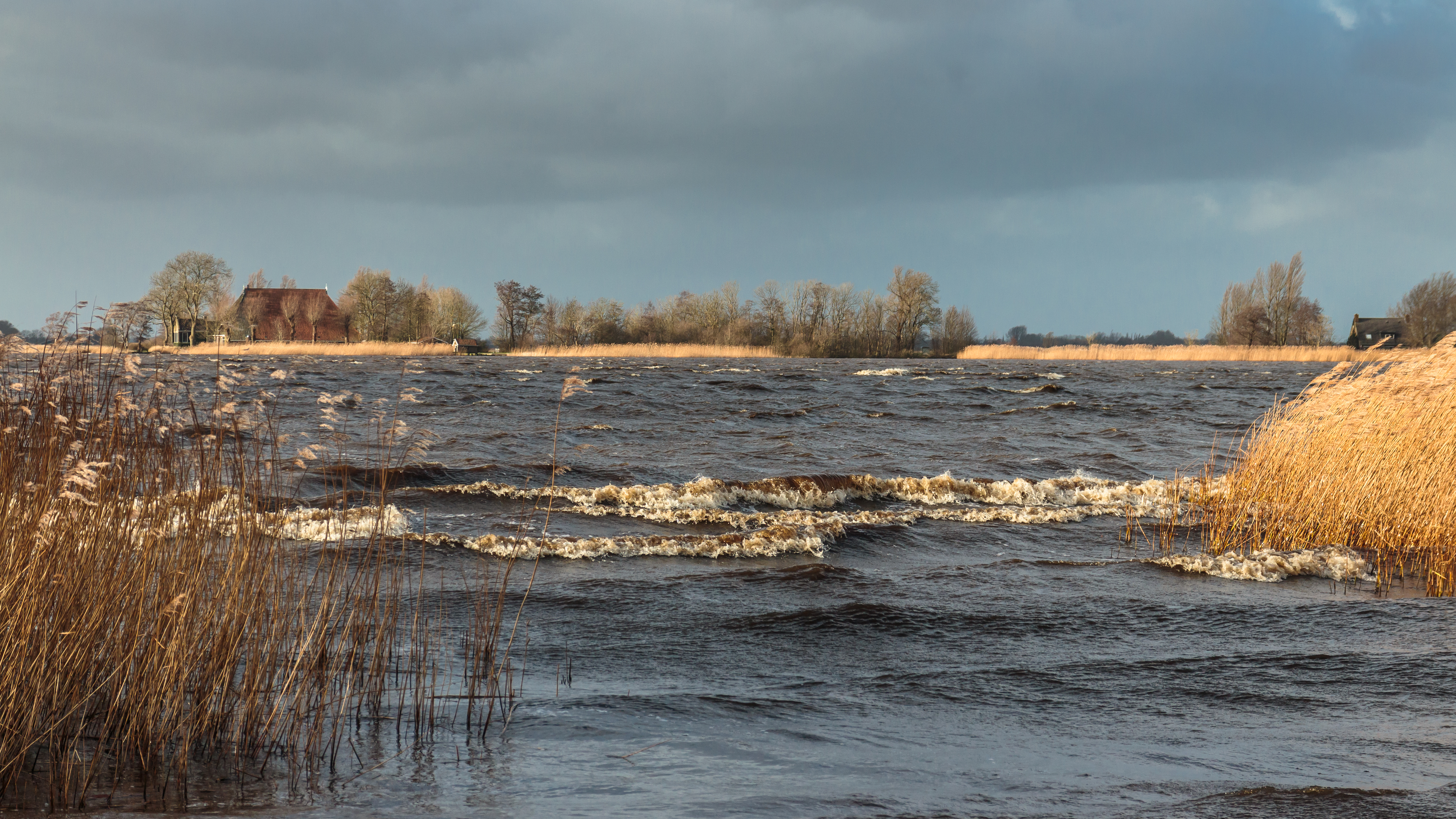 Storm Ciara rushes over Langweerderwielen-Langwarder Wielen.